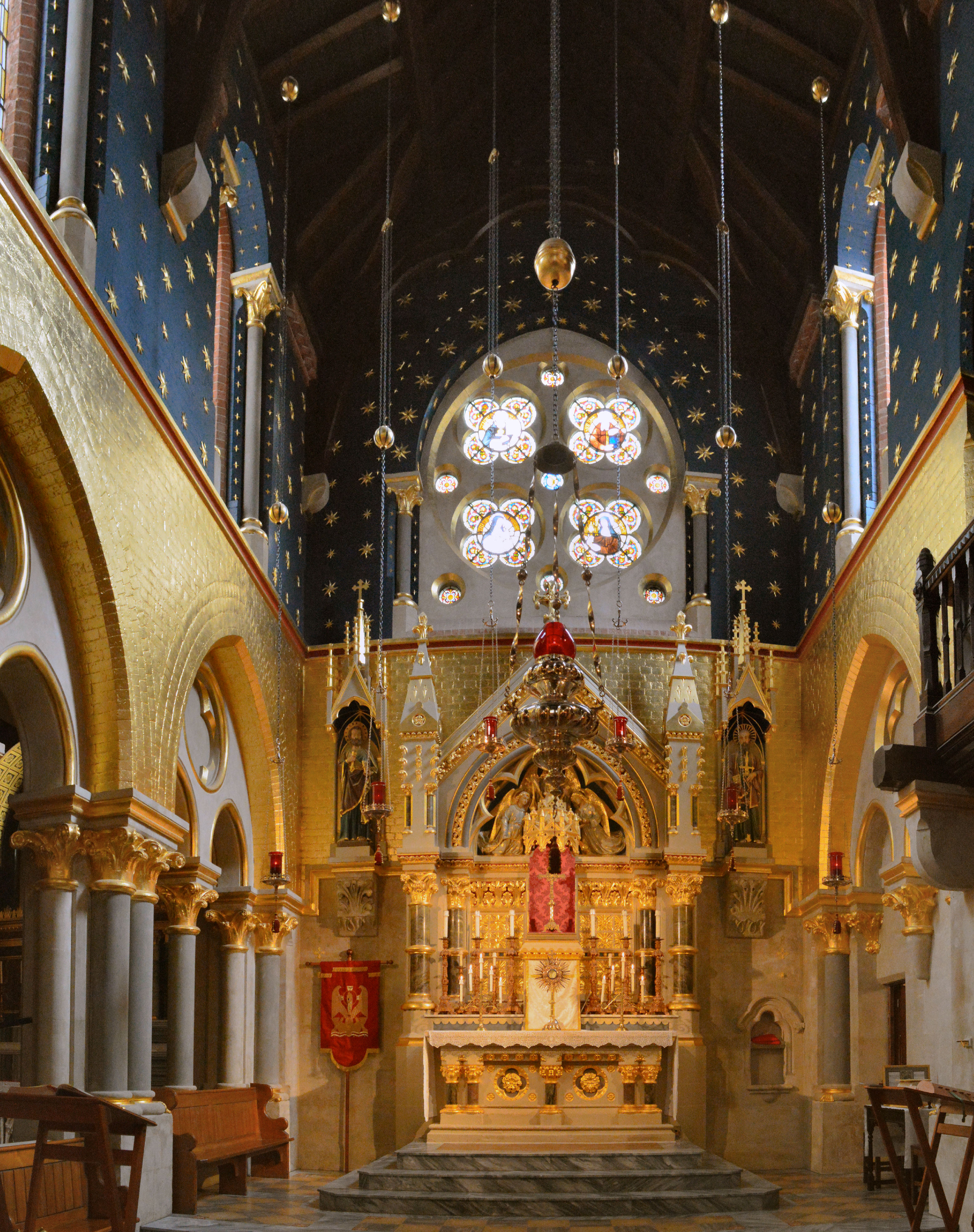 Covent Garden, Corpus Christi Catholic Church, chancel